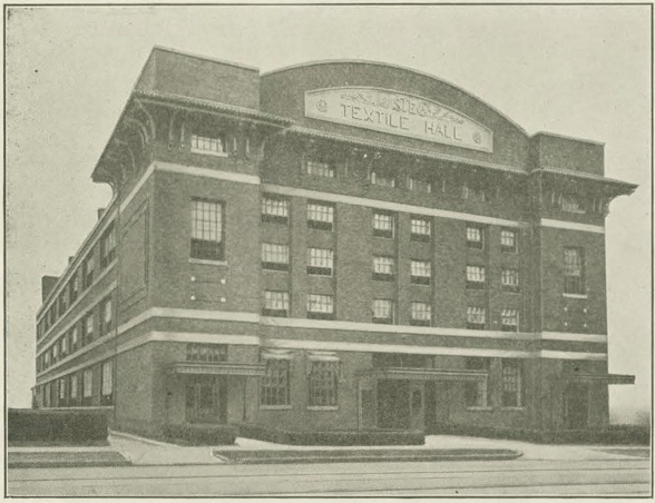 The building served the Southern Textile Exposition (1917-1962) and was also the municipal auditorium for Greenville until 1958. It was listed on the National Register of Historic Places on November 25, 1980. The building was demolished in 1992.